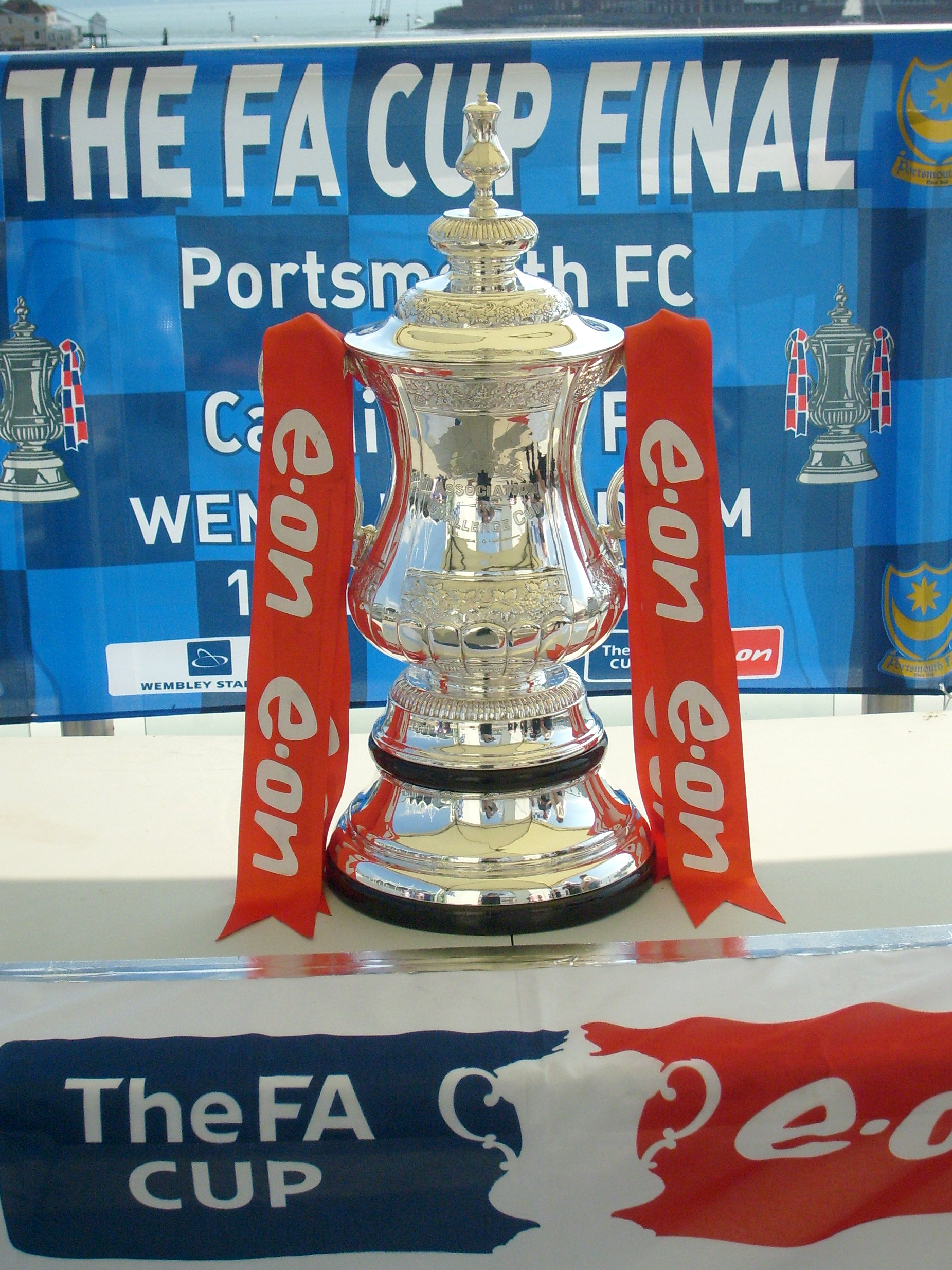 The FA Cup Trophy at Portsmouths Spinnaker Tower. On show before the FA Cup Final.